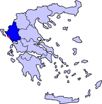 Locator map of Parga, Epirus, Greece